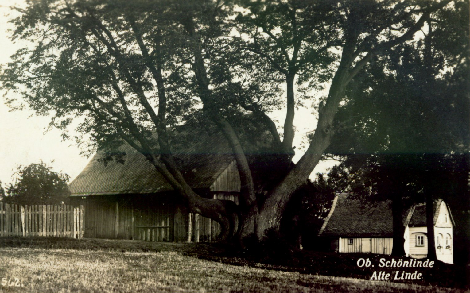 Millenial lime tree in Krásná Lípa, Czech republic